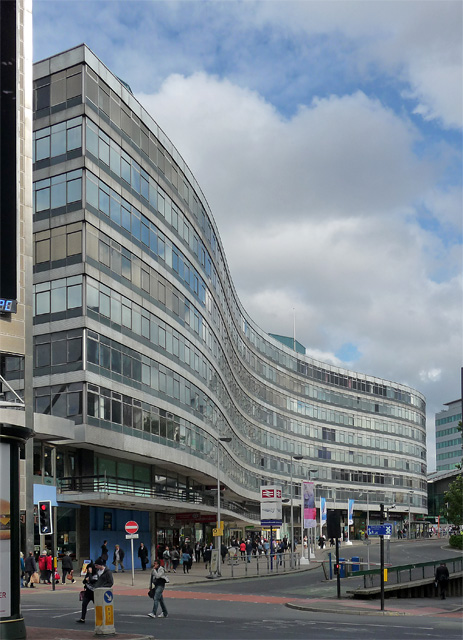 1960s office block by Richard Seifert adjacent to Piccadilly station. Known for its wavy modernist facade